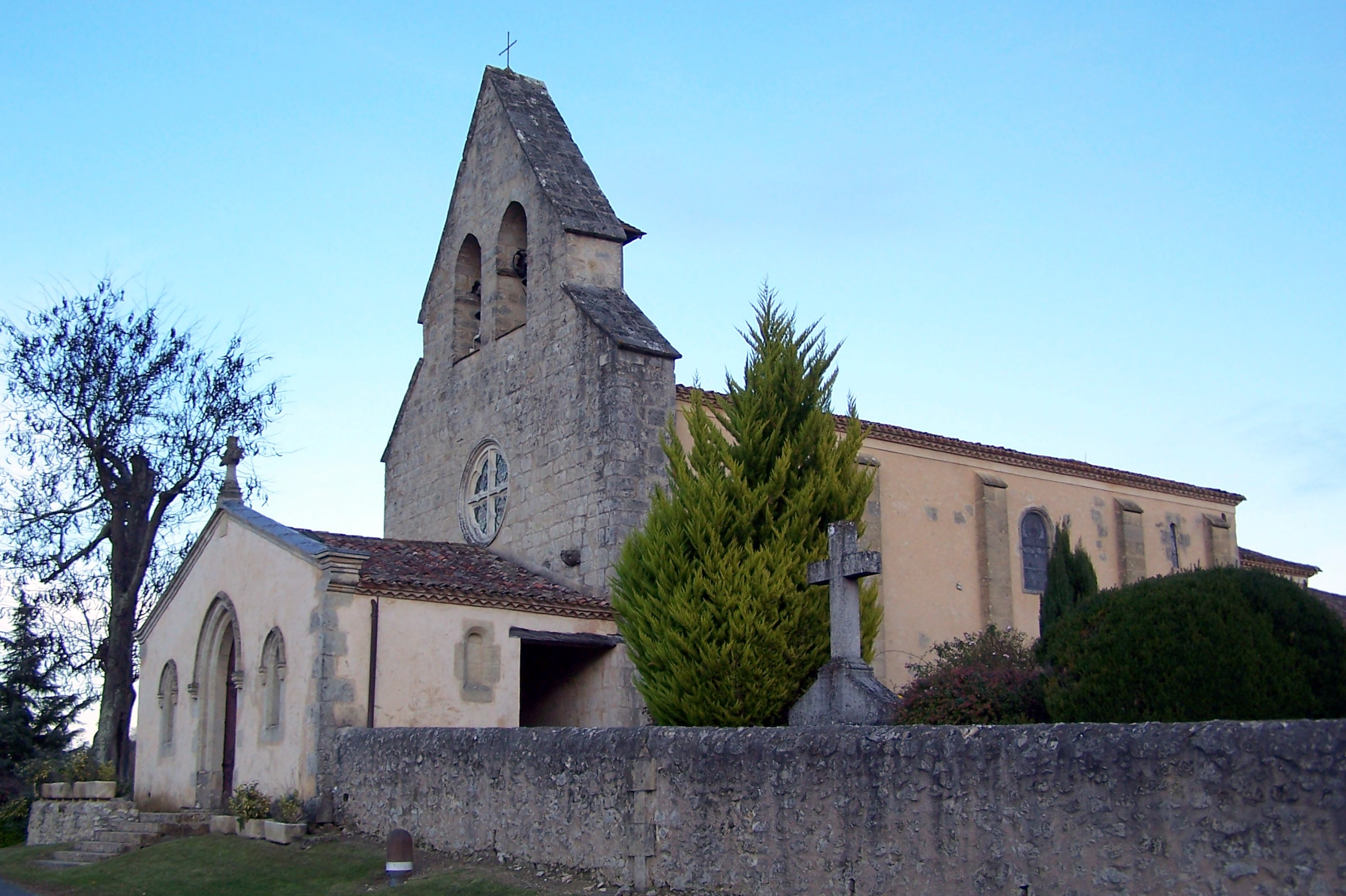 Church of Sauviac (Gironde, France)